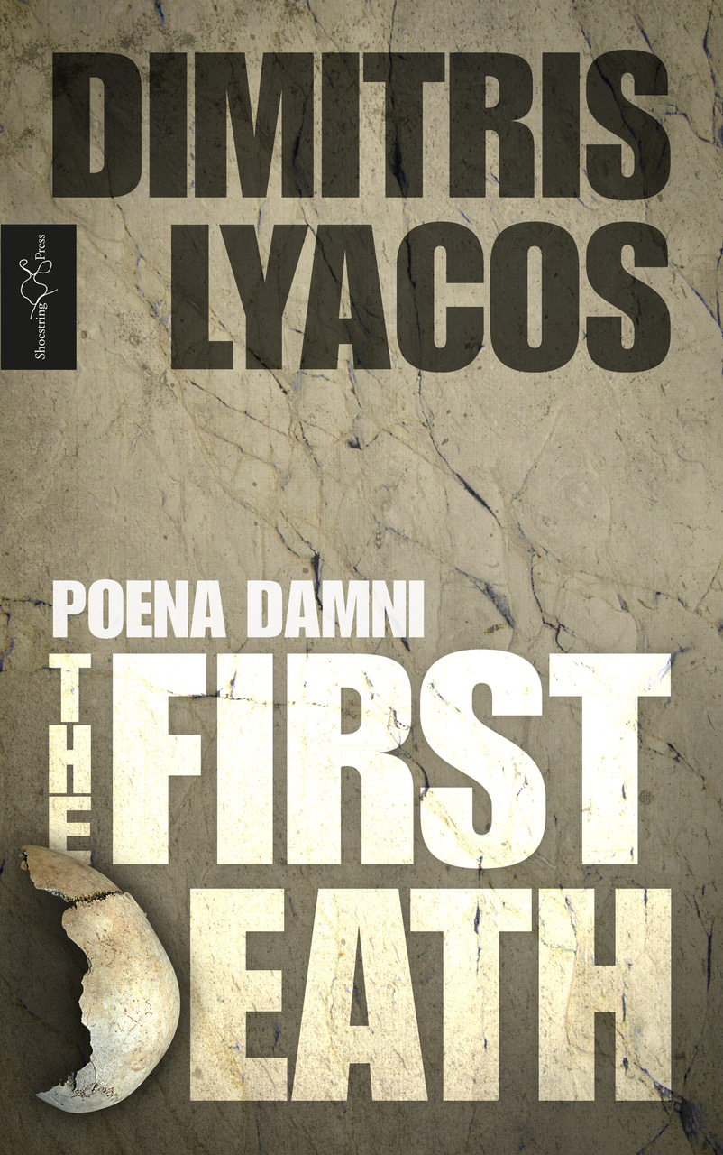 This is the second English Edition of Dimitris Lyacos's The First Death, third part of the Poena Damni trilogy.